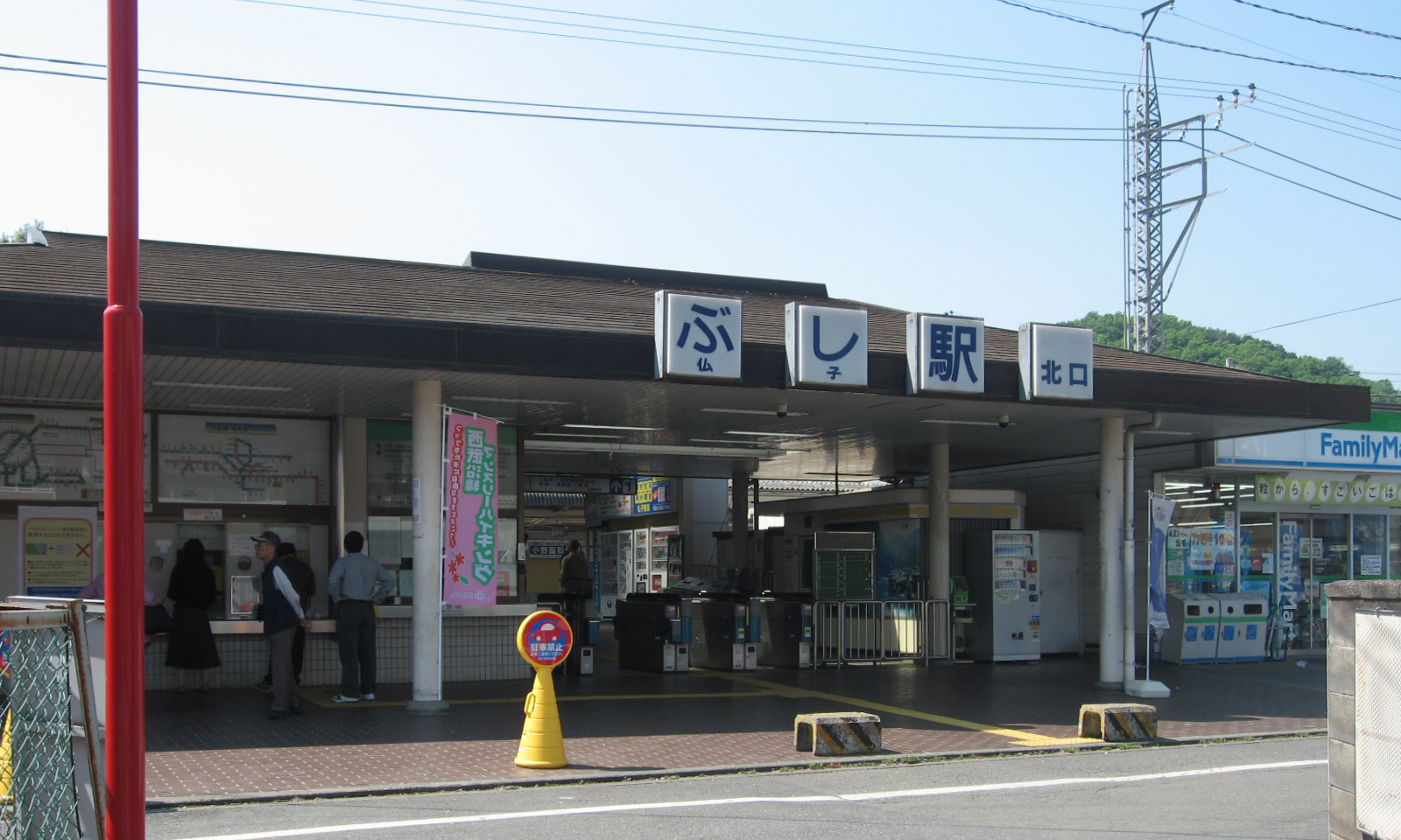 The north Entrance to Bushi Station on the Seibu Ikebukuro Line in Iruma, Saitama Prefecture, Japan